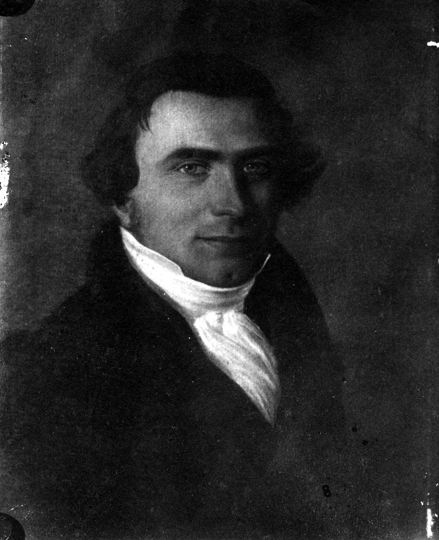 Merchant Andreas Tofte was the first elected mayor of Christiania, now Oslo.